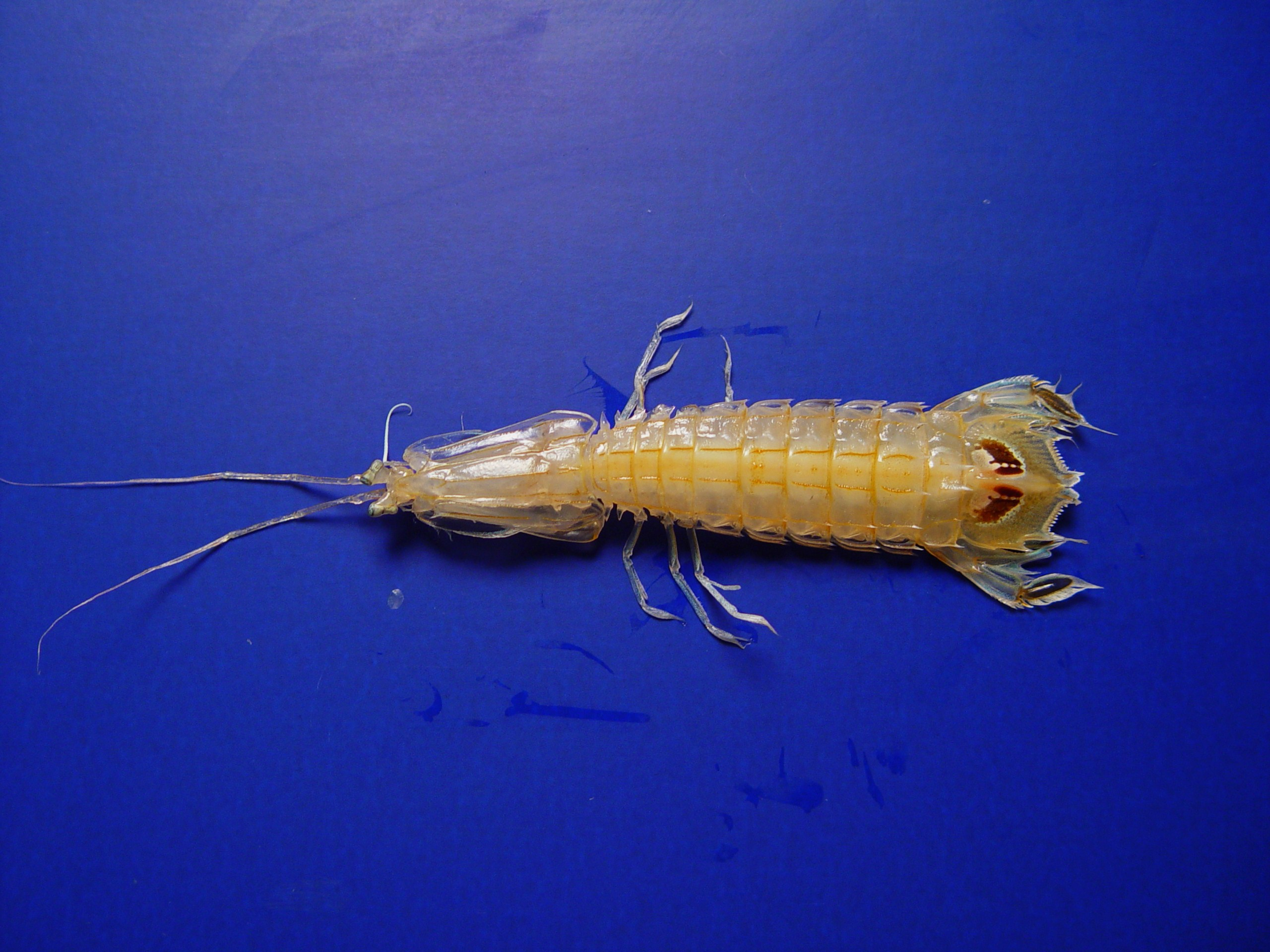 Squilla chydaea in the Gulf of Mexico